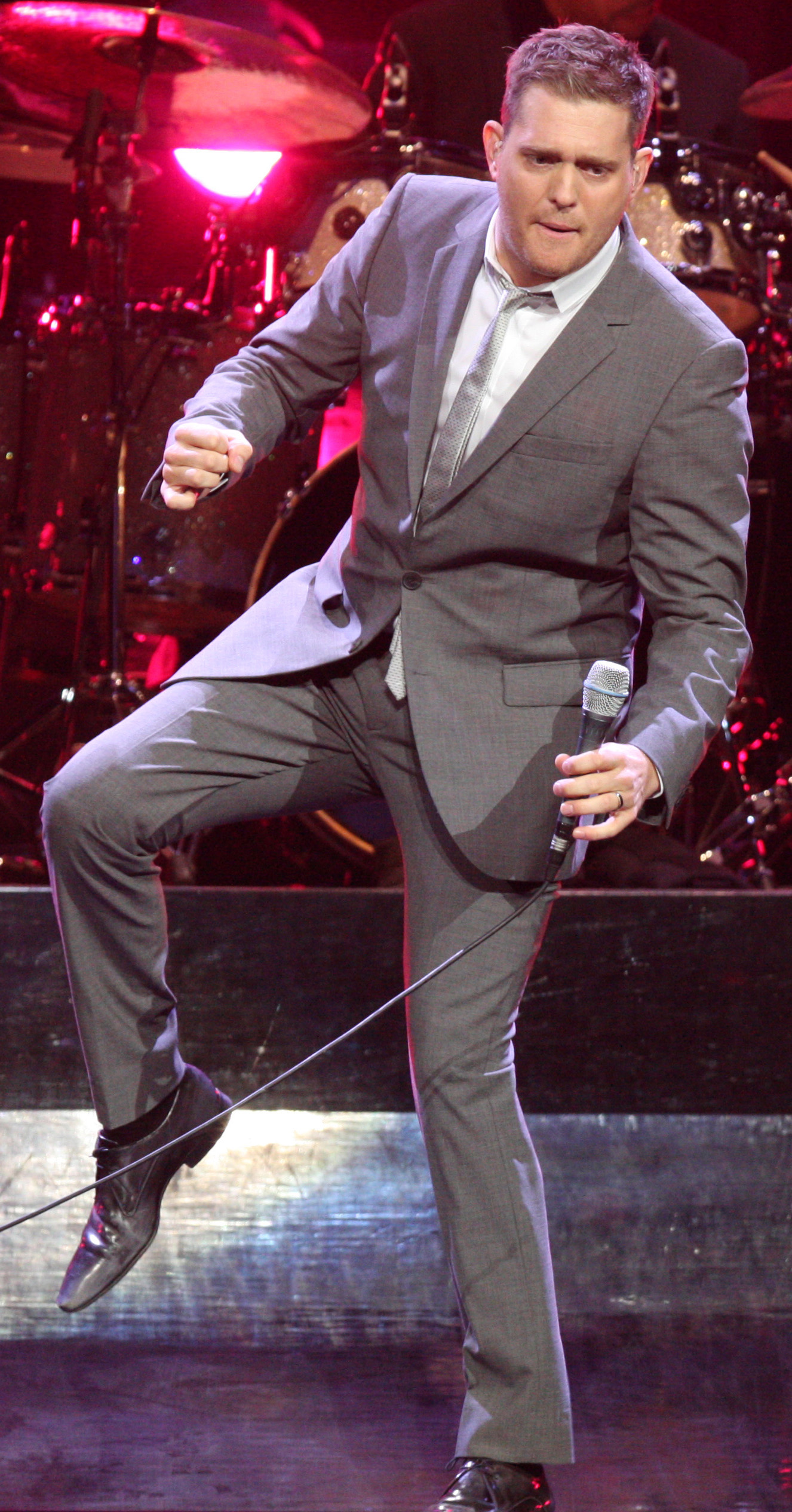 Michael Bublé performing in Sydney, Australia in February 2011.